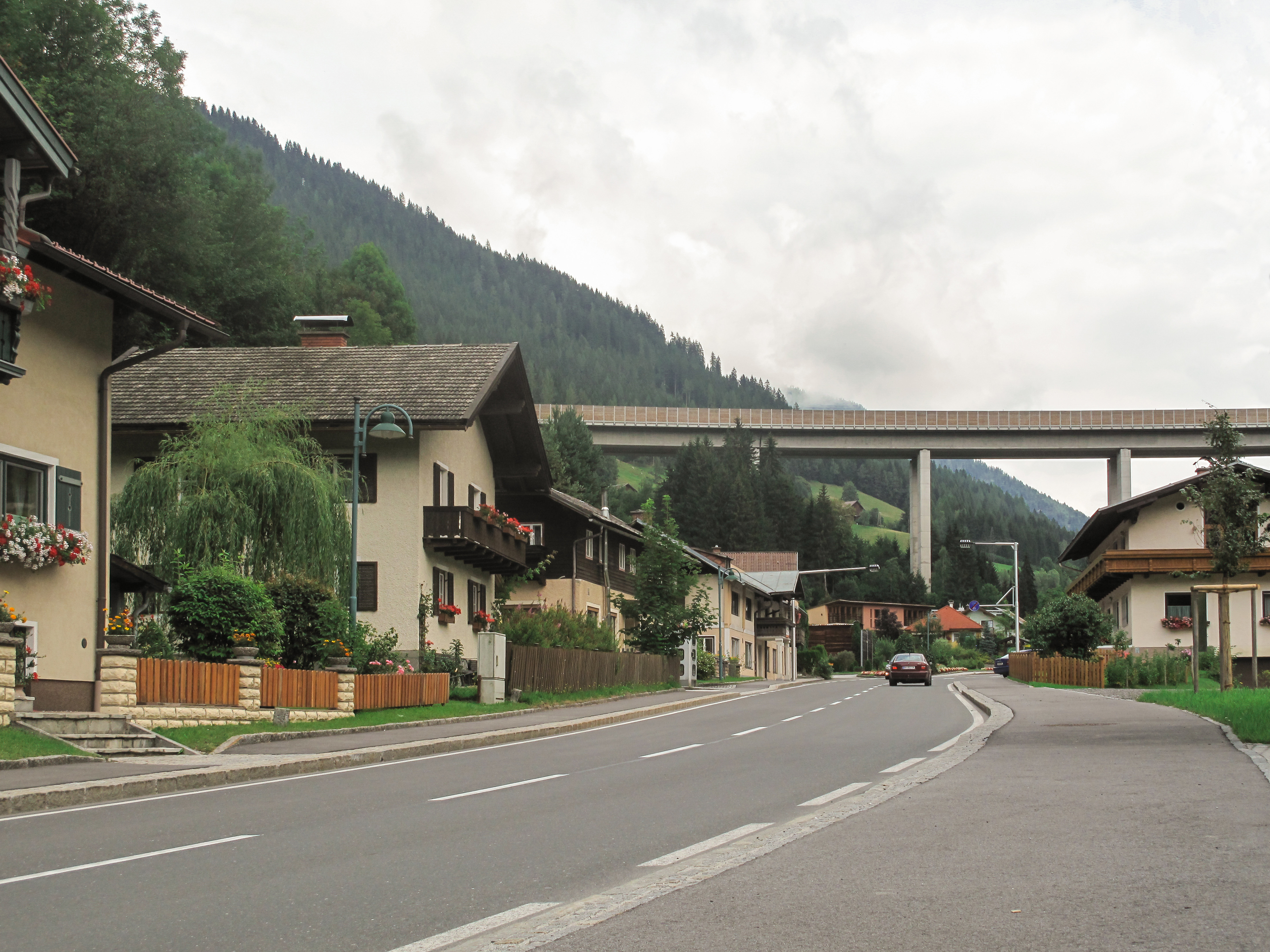 Niederfritz, viaduct